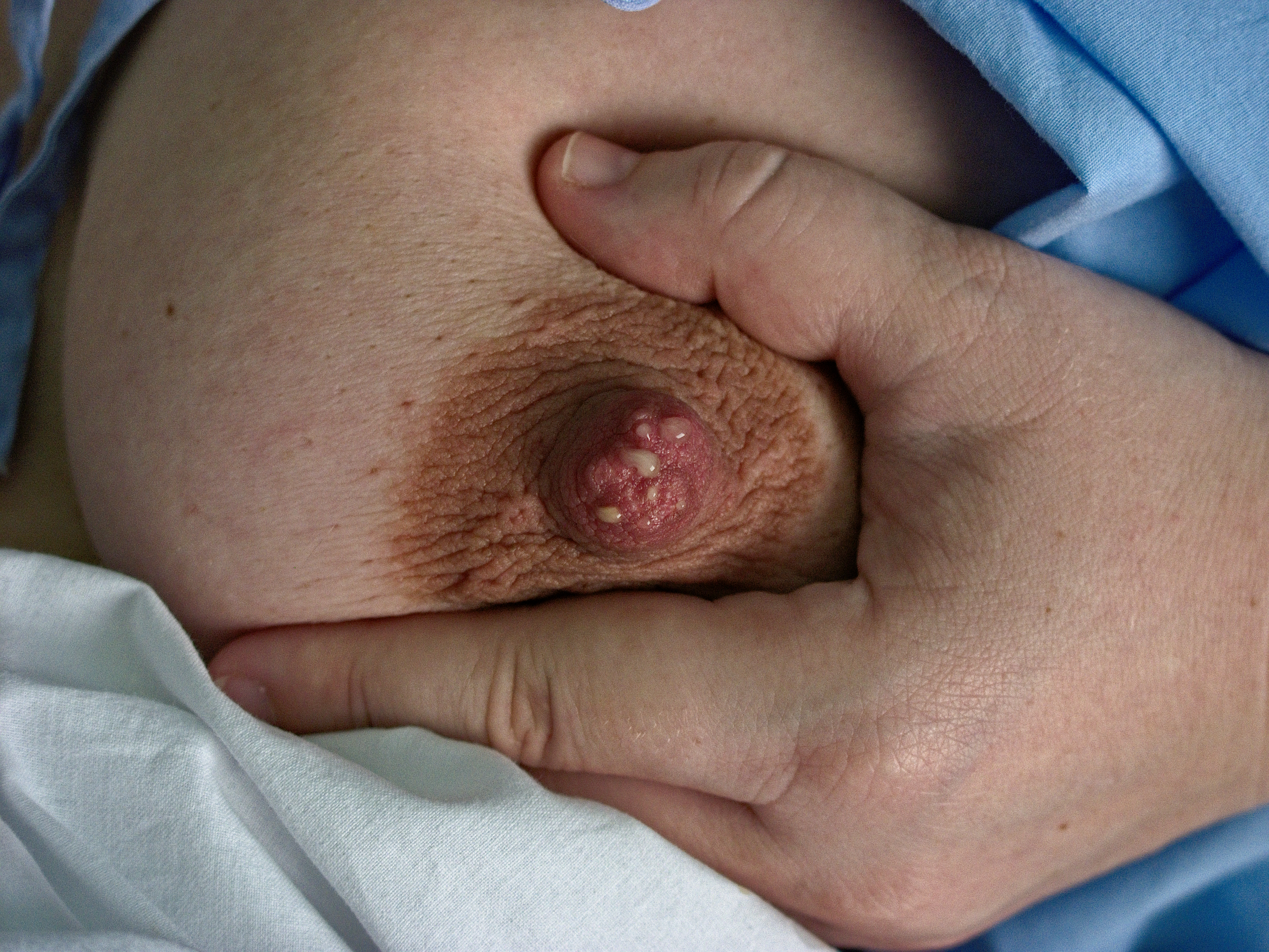 Human first milk secreting from a lactant woman's nipple.